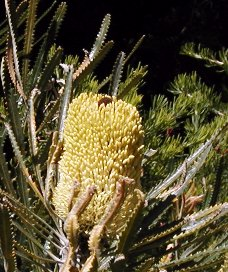 Banksia attenuata, dwarf form cult. Margaret River Photo : Cas Liber